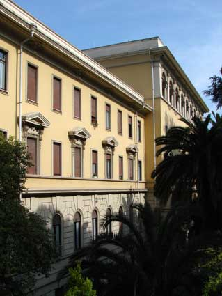 Pontifical College Nepomucenum at Rome